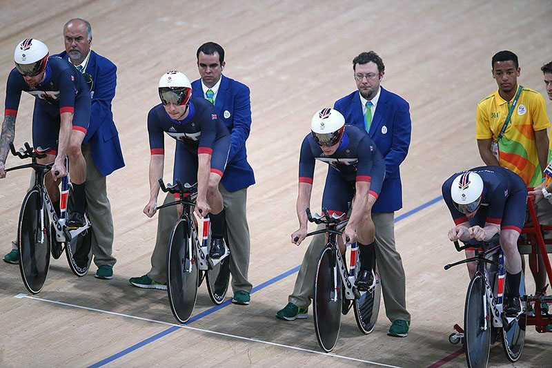 Track cyclists from Great Britain at the 2016 Summer Olympics